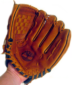 Inside of Baseball Glove